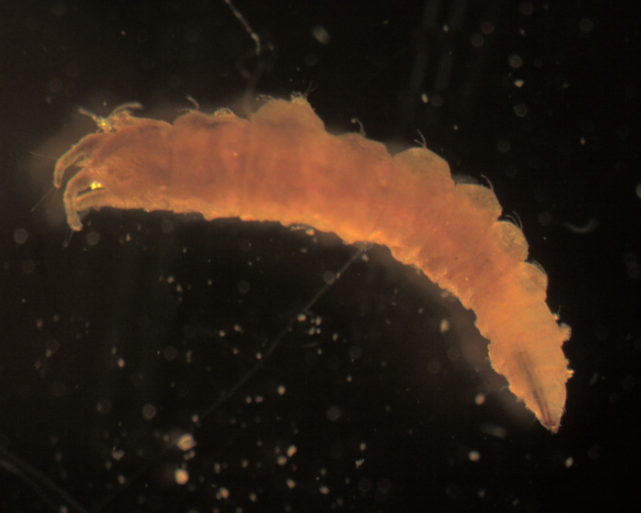 O: Diptera F: Sciomyzidae